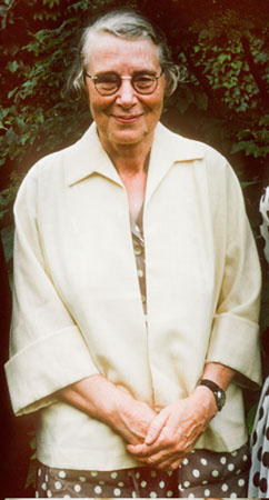 portrait of Irene Manton, 1904-1988, prominent British botanist